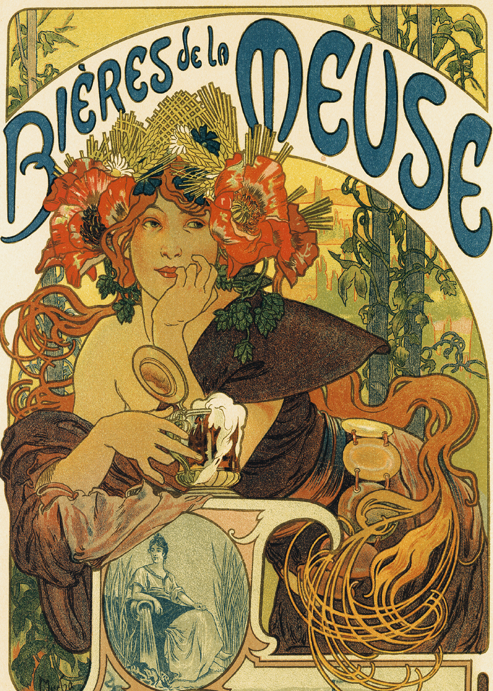 Alphonse Mucha - Bières de la Meuse